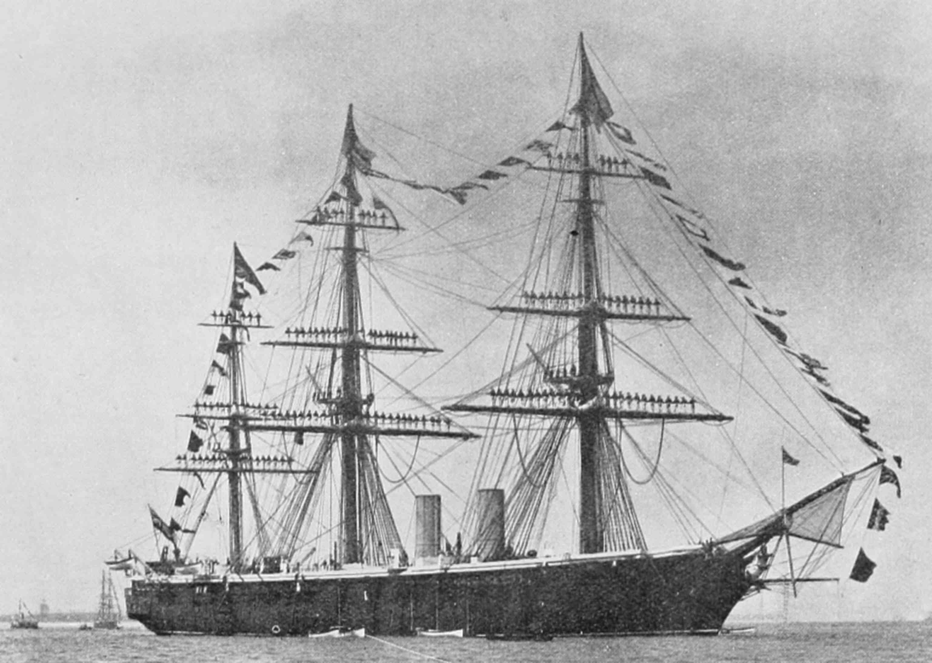 Original image caption 'H M iron single screw battleship (later cruiser) H.M.S. Black Prince', launched Glasgow 1861 scrapped 1923. Masts manned and flying flags as per a naval review.